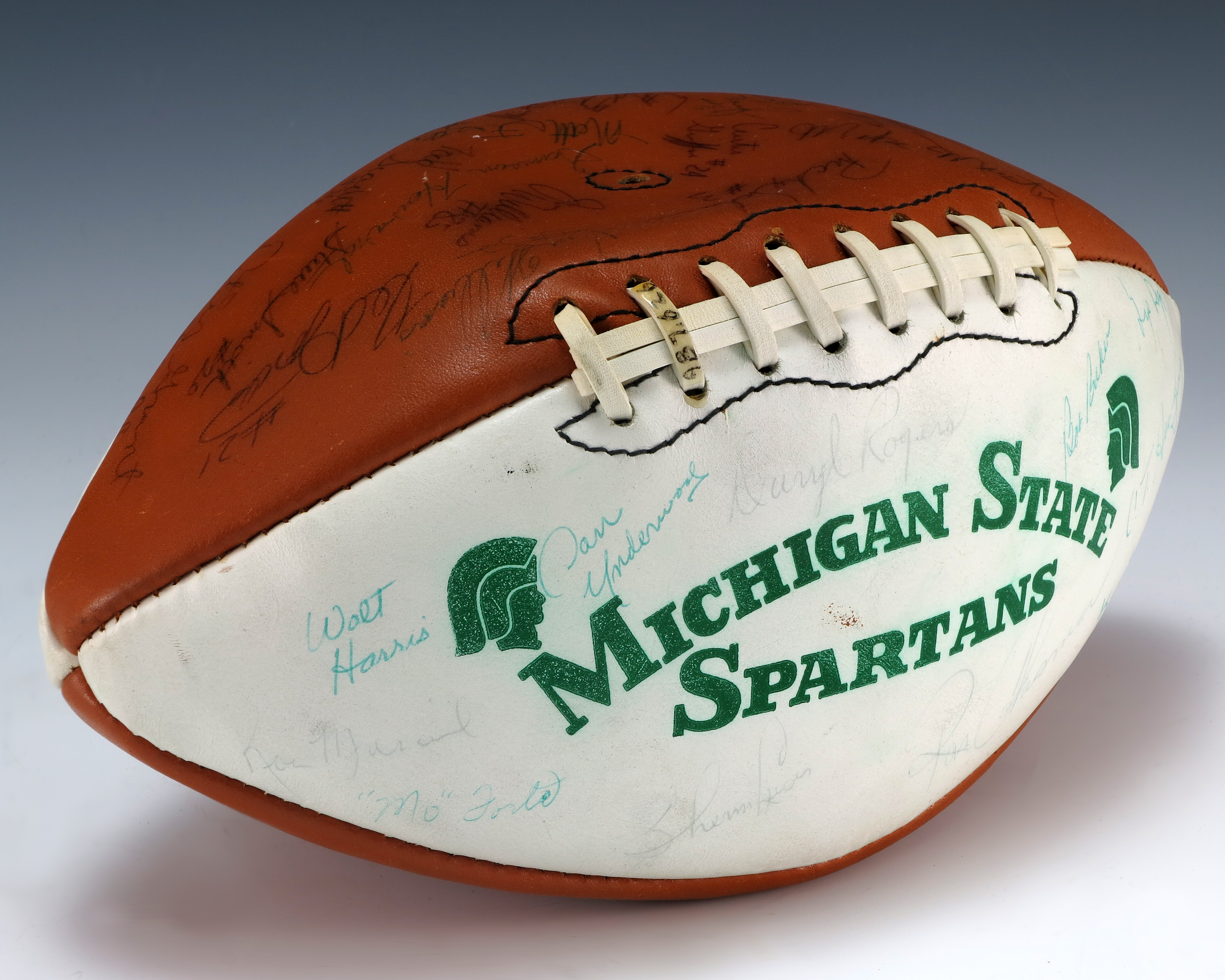 An autographed "Michigan State Spartans" collegiate football signed in ink by members of the 1979 football team.